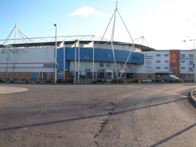 Madejski Stadium